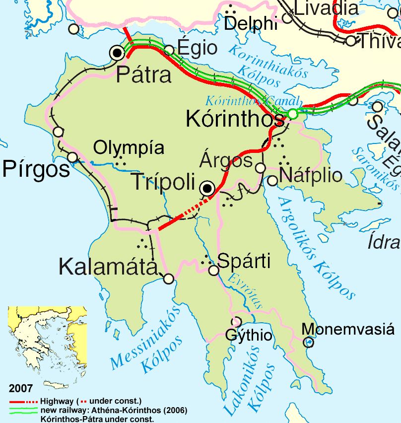 Main traffic lines in the Peloponnese, as of 2007.